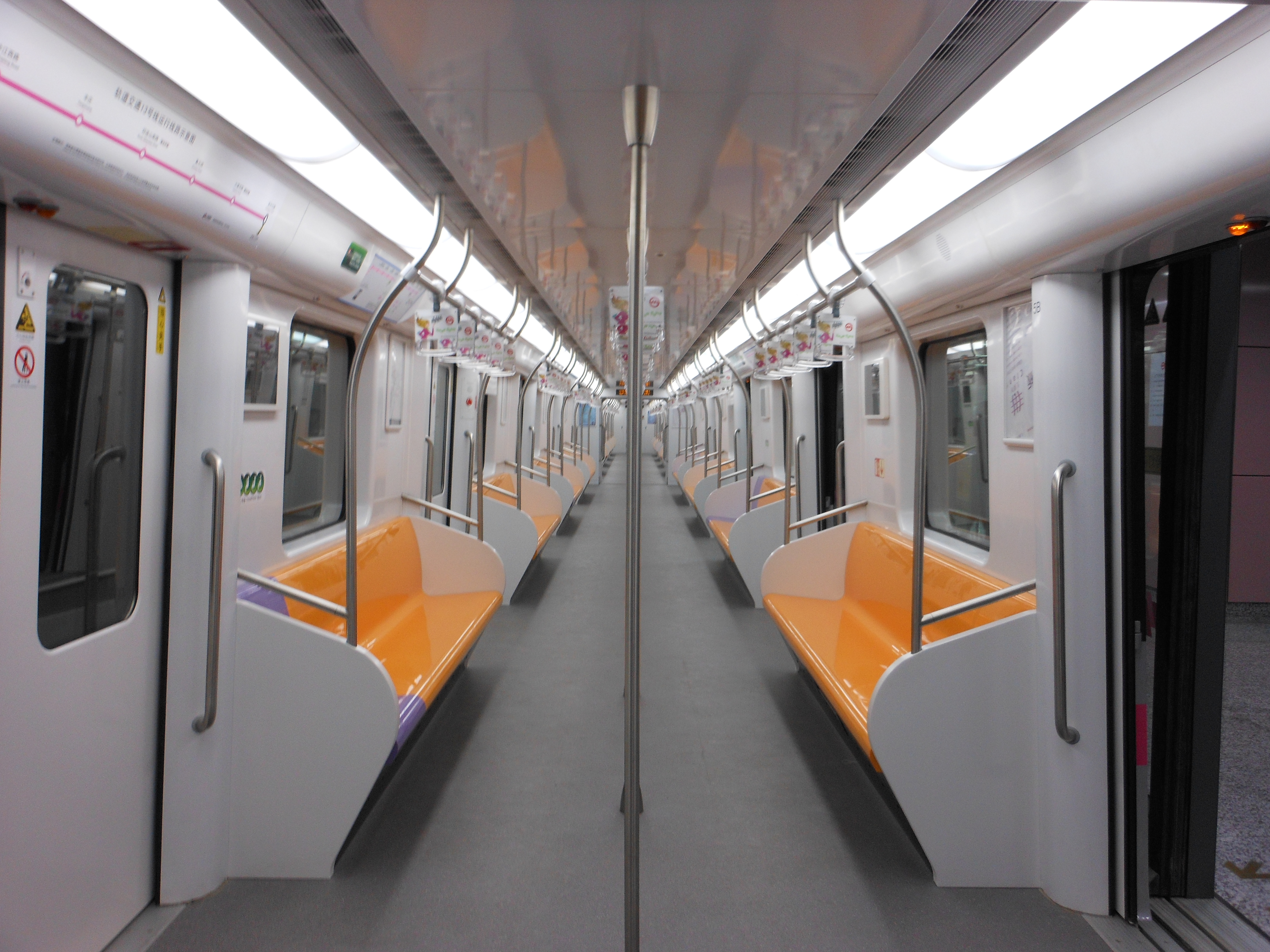 Interior of Shmetro Line 13 AC18 Train